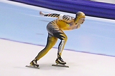 Arne Dankers (CAN) in action at the WCh Allround in Thialf (Heerenveen, The Netherlands)